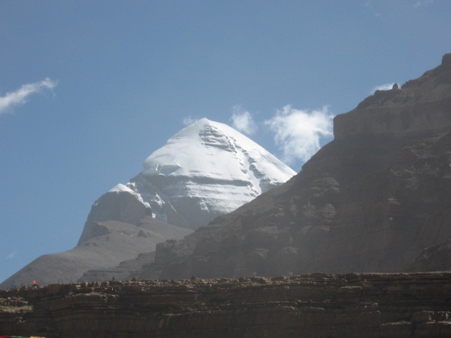 Kailash Yatra PictureKailash Manasarover Yatra This a photograph of the South Face of the Holy Kailash Mountain. This was shot from Tarchen base camp